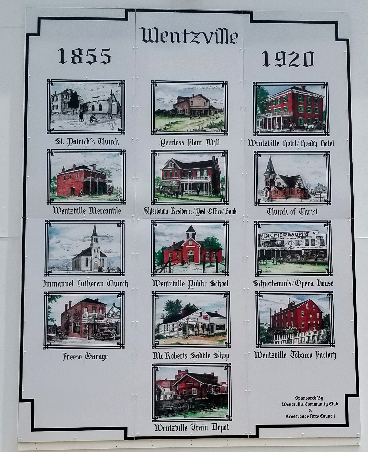 Mural posted on the side of a Chic Lumber building in downtown Wentzville. Shows paintings of significant buildings in Wentzville from 1855 to 1920.